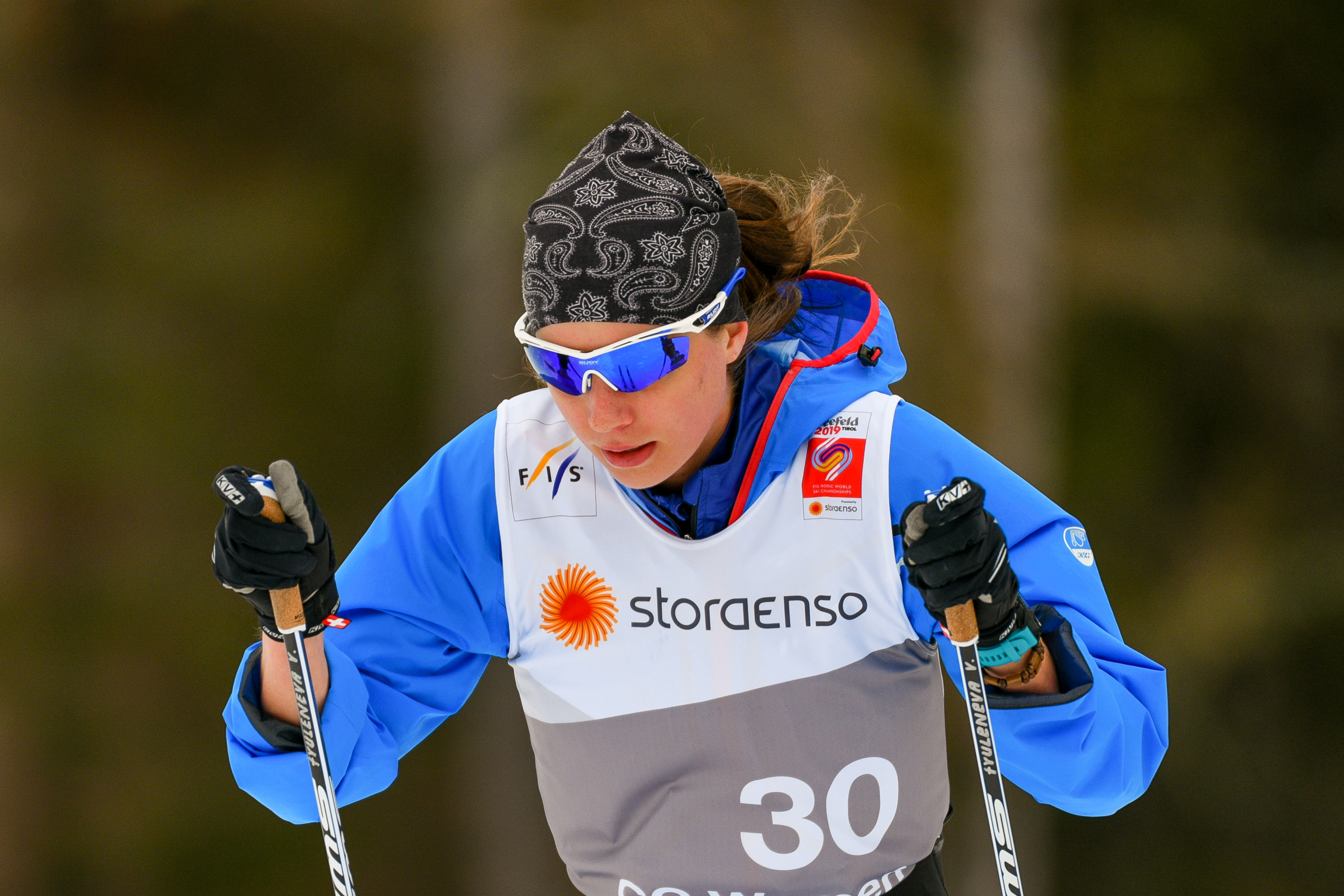 FIS Nordic Wolrd Ski Championships Seefeld 2019 - Ladies 30km Mass Start Free. Picture shows Valeriya Tyuleneva (KAZ).